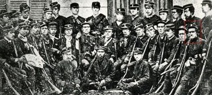 The only real known photo of Saitō Hajime (bottom right encircled) with his police troop.